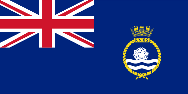 Ensign of the now defunct British Royal Naval Auxiliary Service (RNXS).